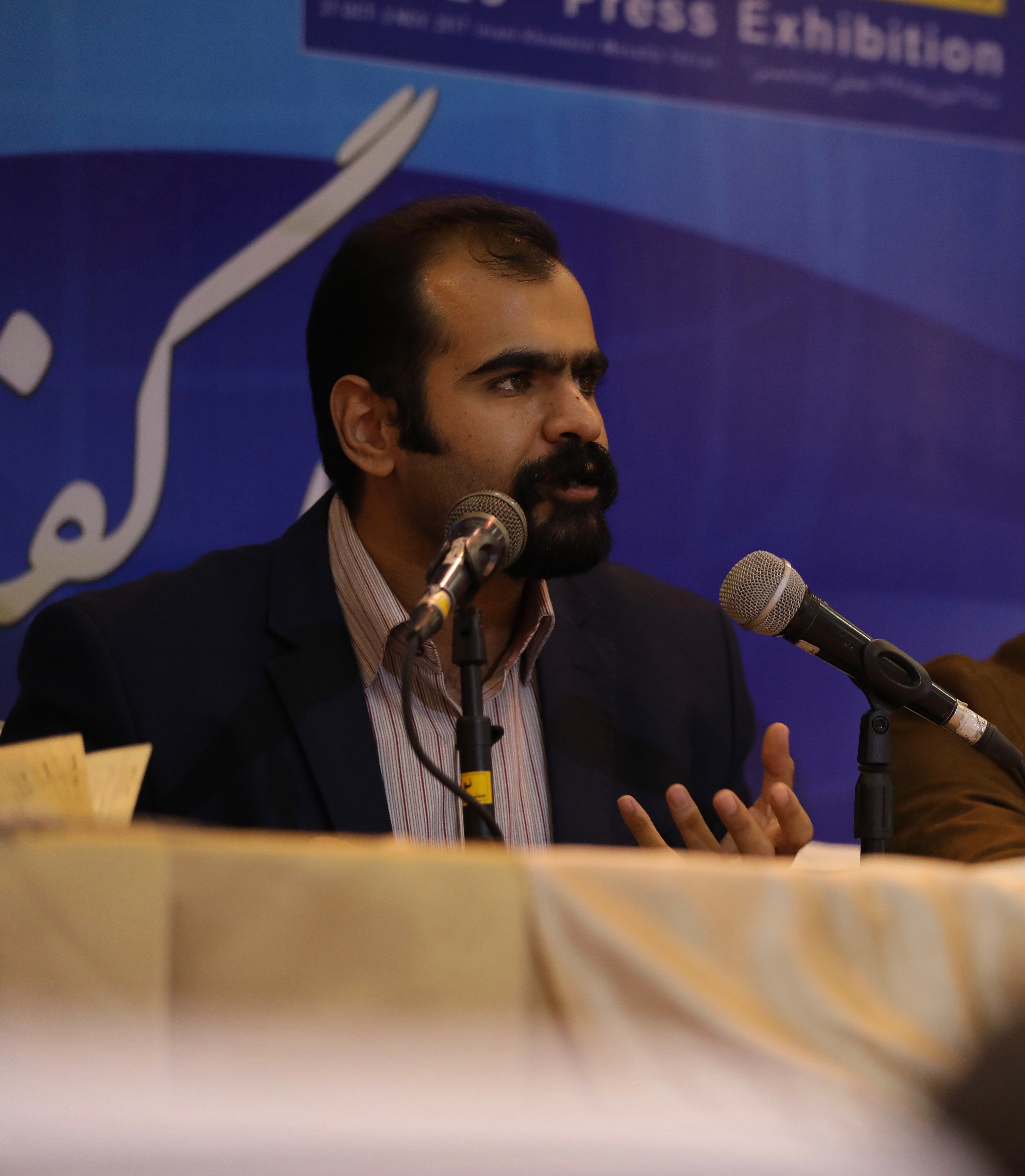 Kasra Nouri - The 23rd Press Exhibition In Tehran - ILNA